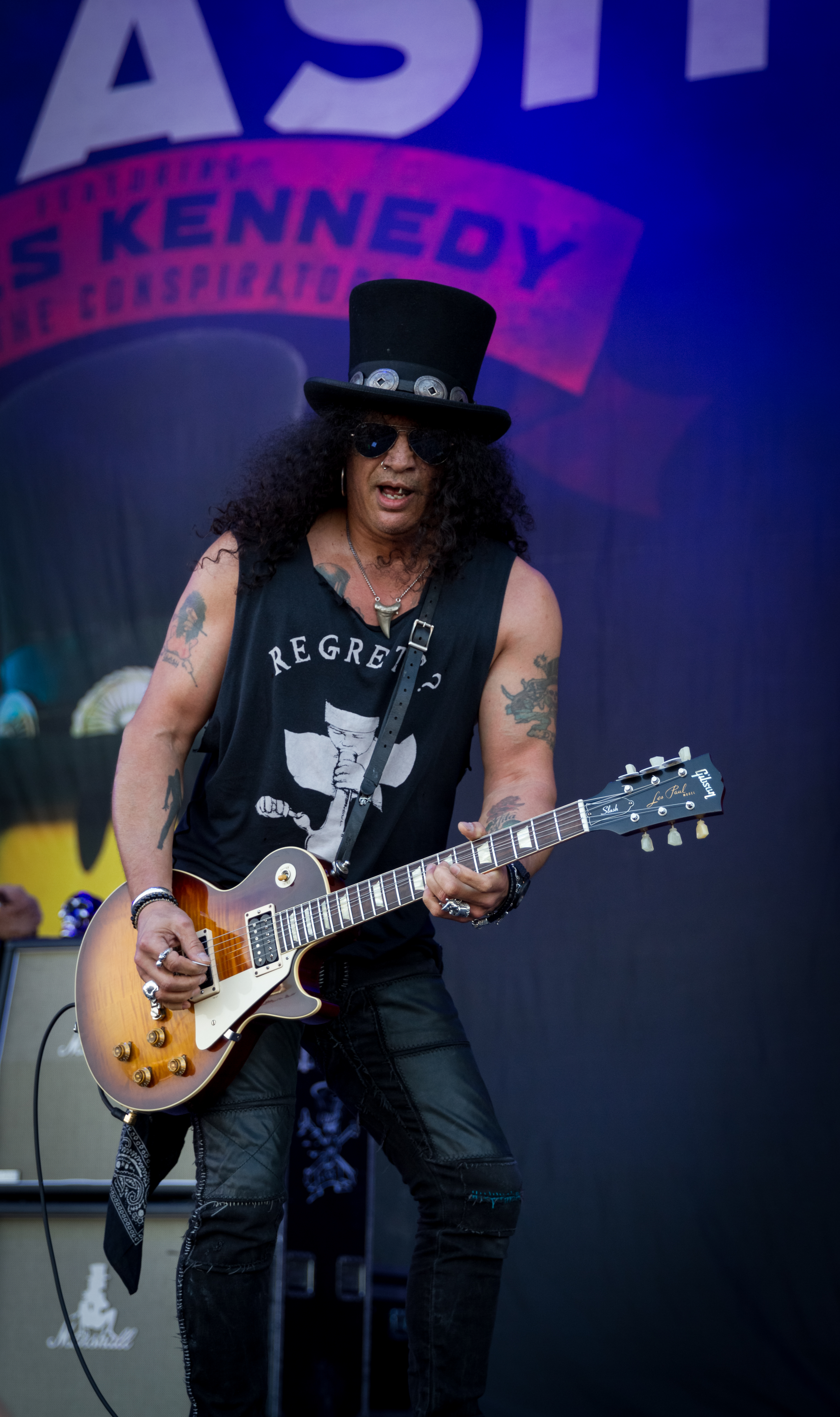 Slash feat Myles Kennedy & The Conspirators - Rock am Ring 2015